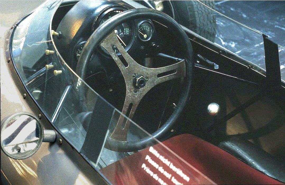 Cockpit of Porsche 804